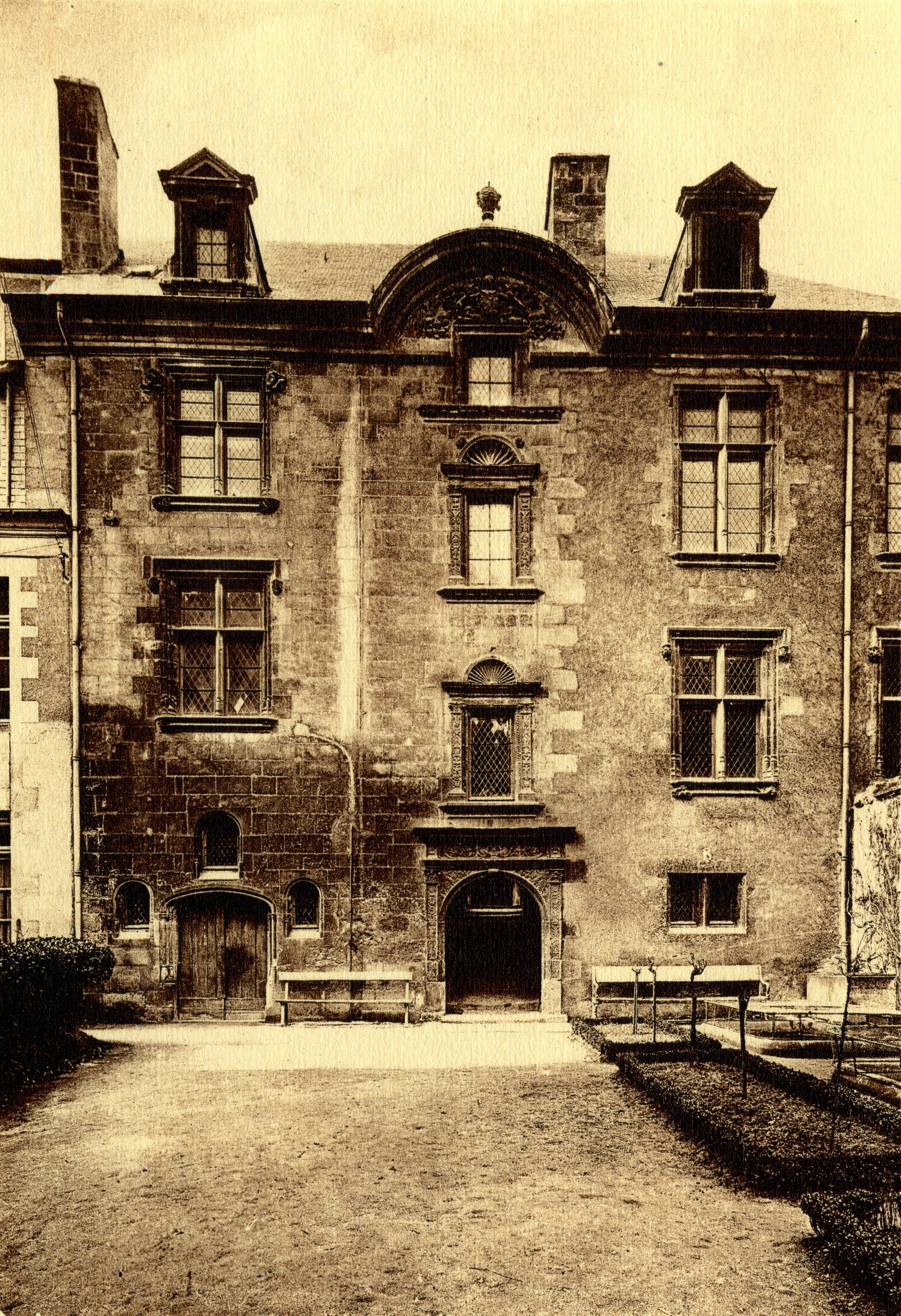 Bourges, France. Hotel Lallemant, eastern fassade (16th and 17th century. Heliogravure. Publishing house Michel Lévy frères (LL).